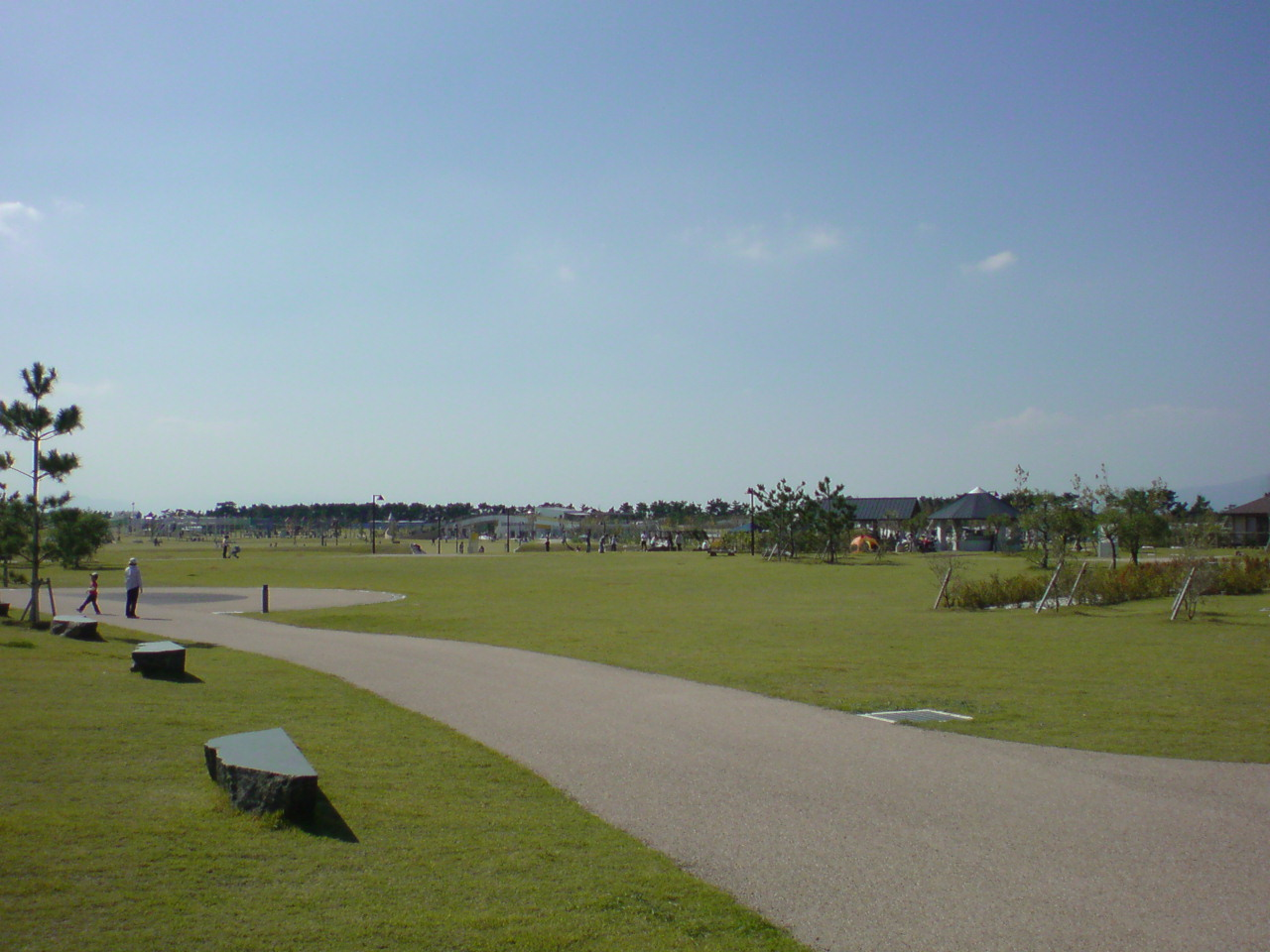 Tsukimigaoka Kaihin Koen (月見ヶ丘海浜公園), Seaside park at Matsushige Town., Tokushima Pref., Japan